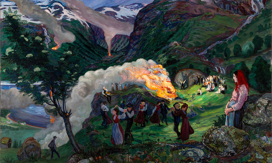 Painting of a bonfire by Nikolai Astrup